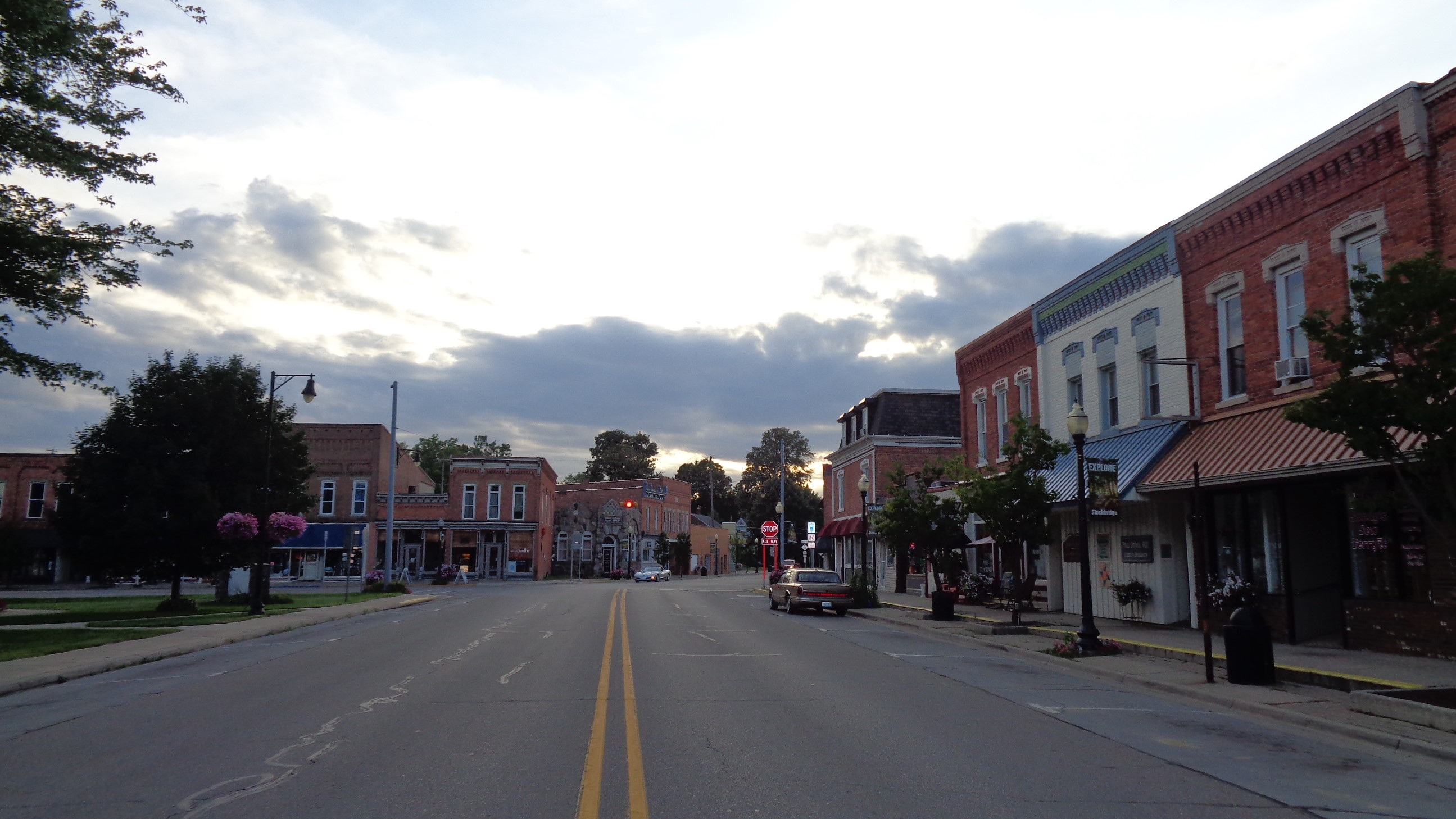 Depicted place: Stockbridge